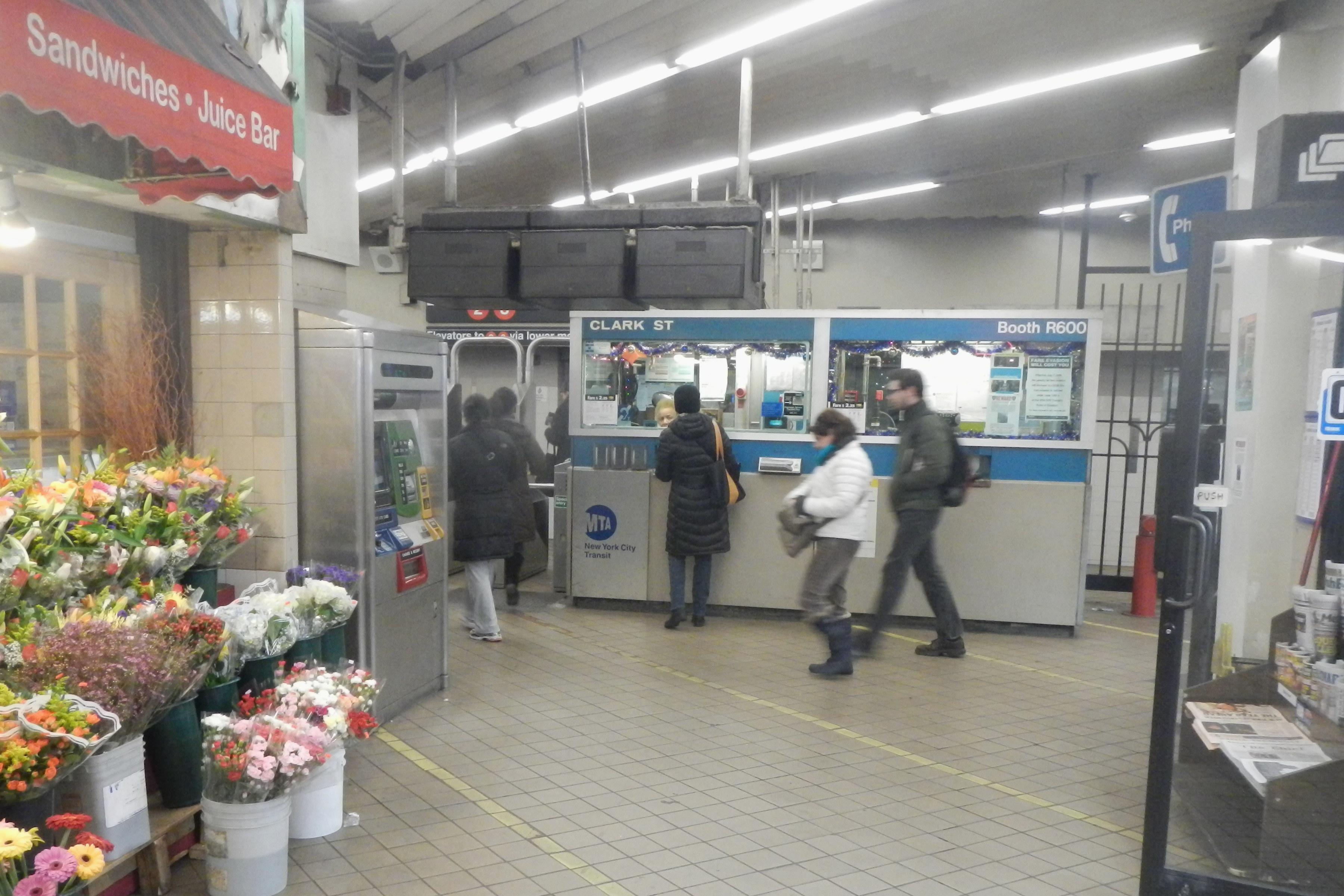 Looking west in lobby at fare control.